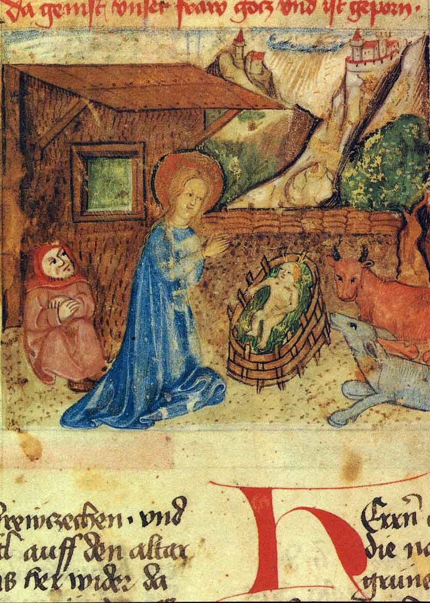 This picture shows the birth of Jesus Christ in 'The life of the Virgin Mary' from Philipp from Seitz, Grazer Fragment Germ. 7.